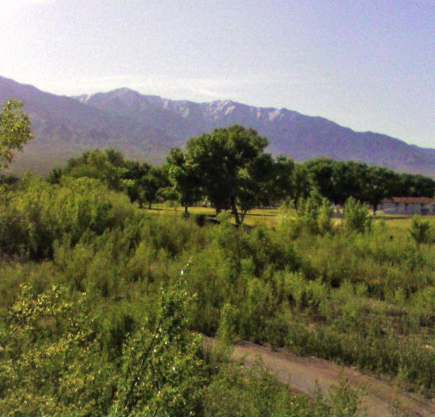 Littlefield, Arizona